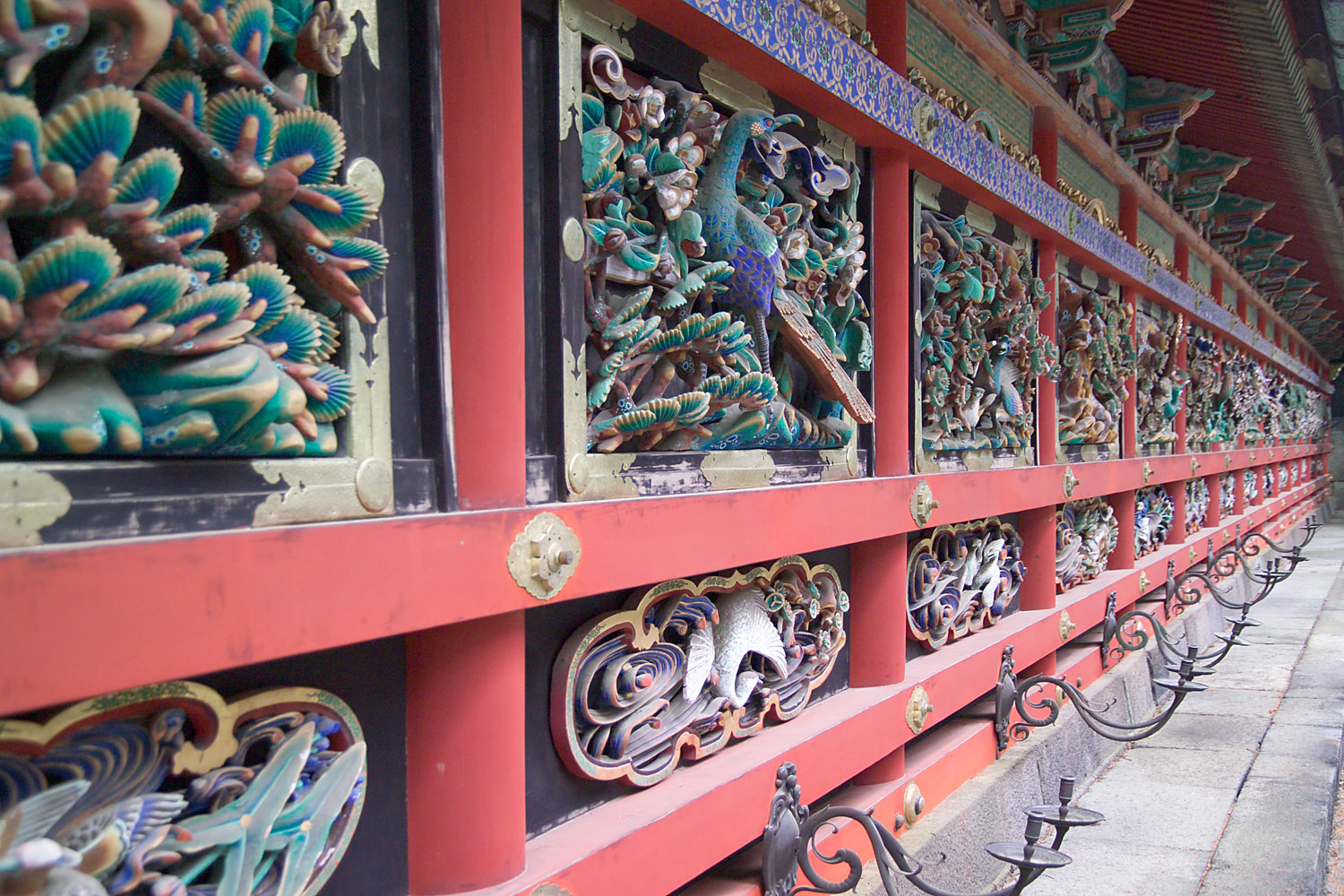 Carvings adjacent to Yōmei-mon at Toshogu, Nikko, Tochigi Prefecture, Japan, a UNESCO World Heritage Site.